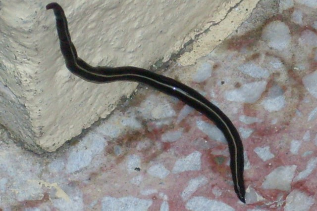 Caenoplana coerulea entering a suburban house, Chatswood West, Australia (The worm's underside is coloured blue)